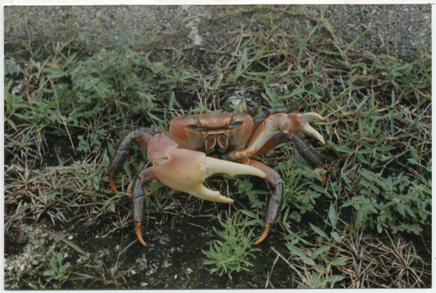 This is a photograph of a crab taken in Diego Garcia during my dad's deployment there from 1988-1989.